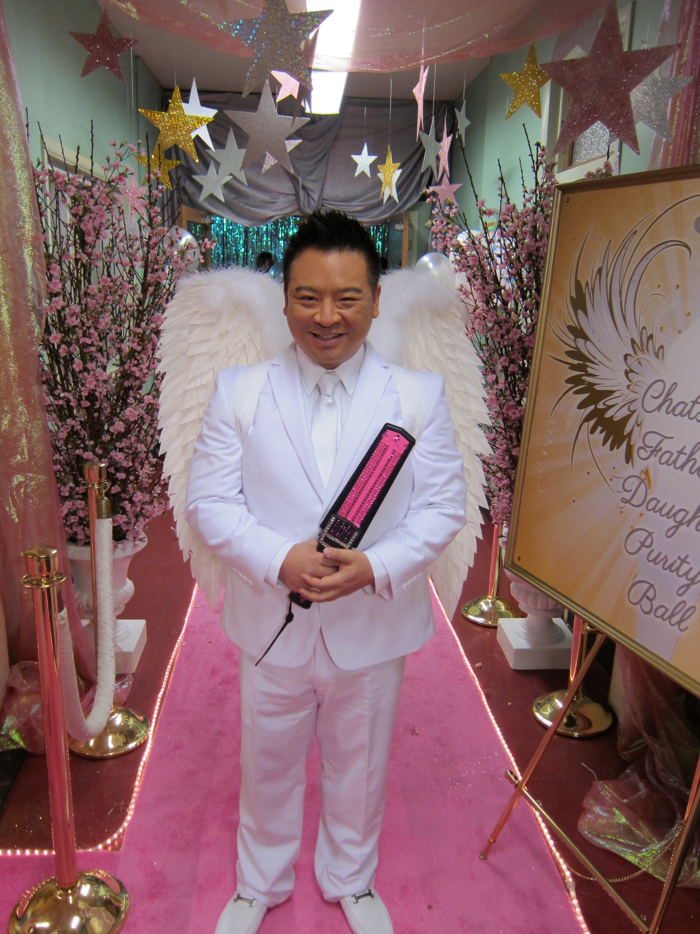 Actor Rex Lee on the set of ABC comedy Suburgatory in 2013